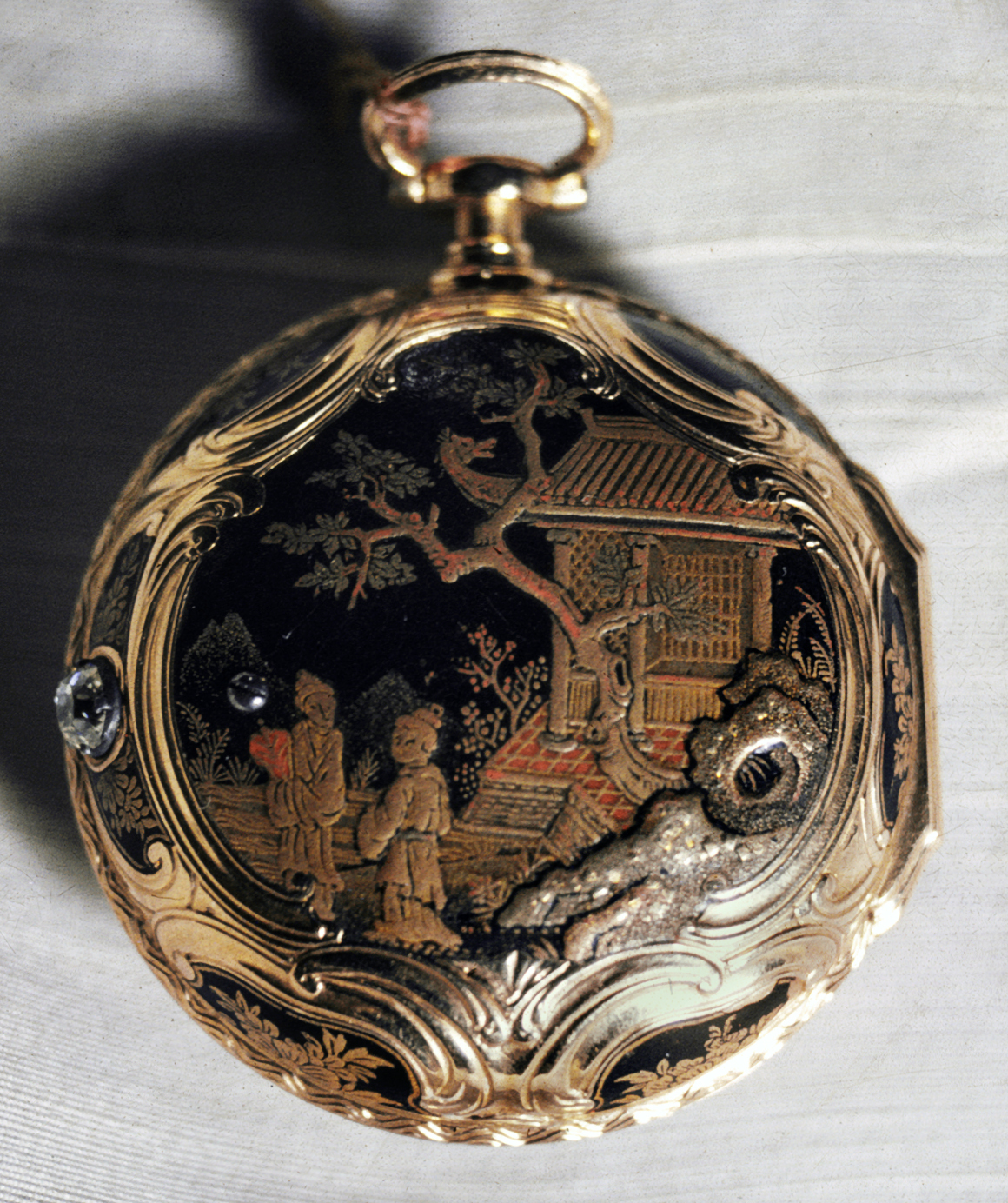 During the 18th century, because the supply of Japanese lacquer was limited to that imported to Europe by the Dutch through their base in Deshima, Japan, European craftsmen introduced japanning, a type of pseudo-lacquer made with shellac.